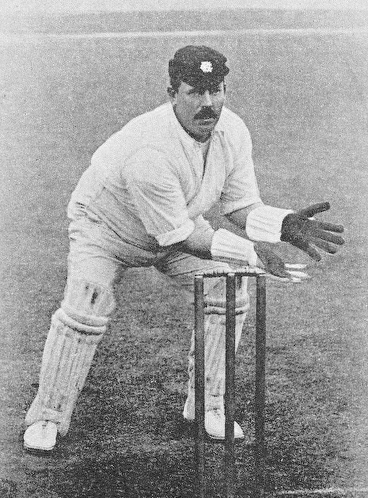 Scan of cricketer Mordecai Sherwin